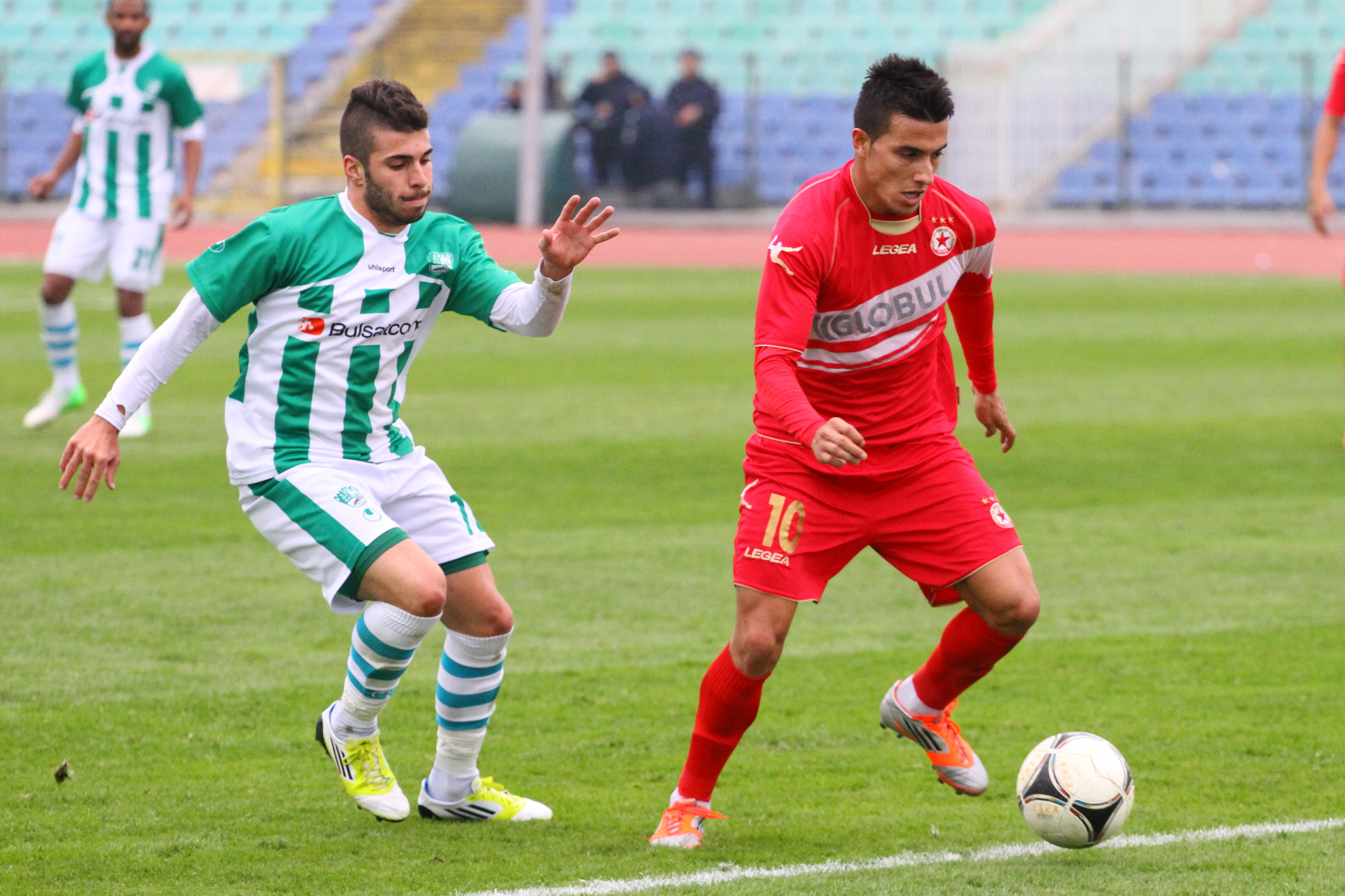 Pedro Eugénio from Beroe and Sergihno from CSKA